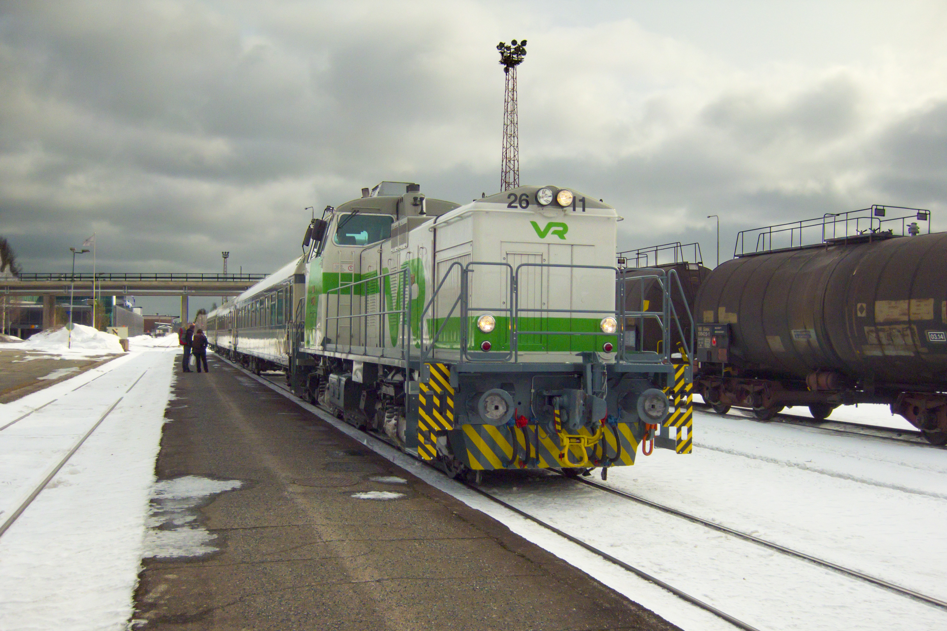 Regional train 782 from Joensuu to Pieksämäki arriving at Varkaus railway station.